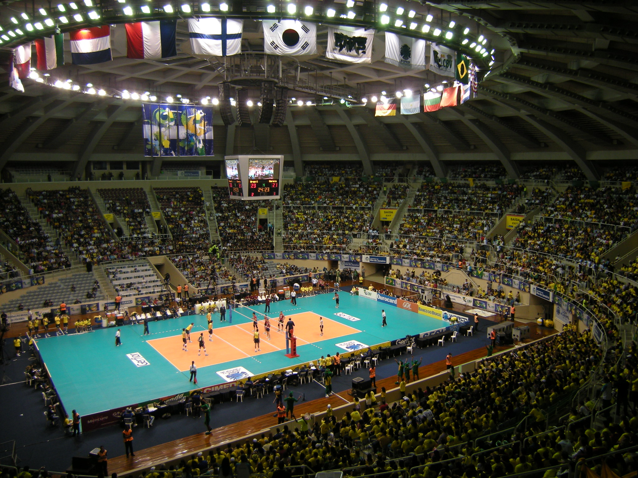 Volleyball match - Brazil Vs South Korea FIVB World League 2010